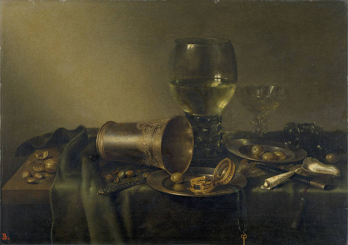 Still life with silver glass and clock.